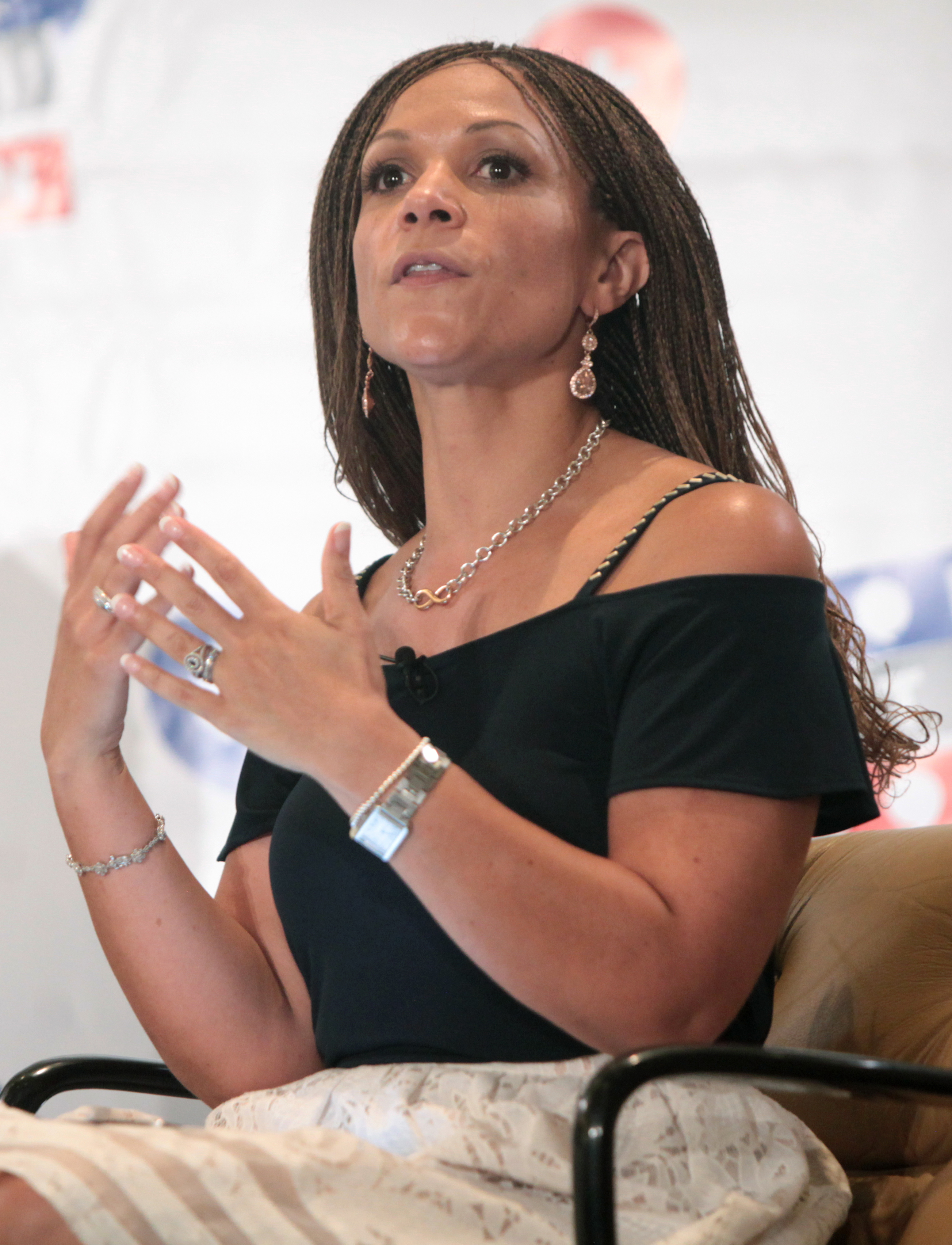 Melissa Harris-Perry speaking at Politicon in Pasadena, California.